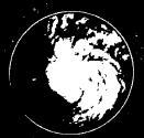 radar image of hurricane cindy.